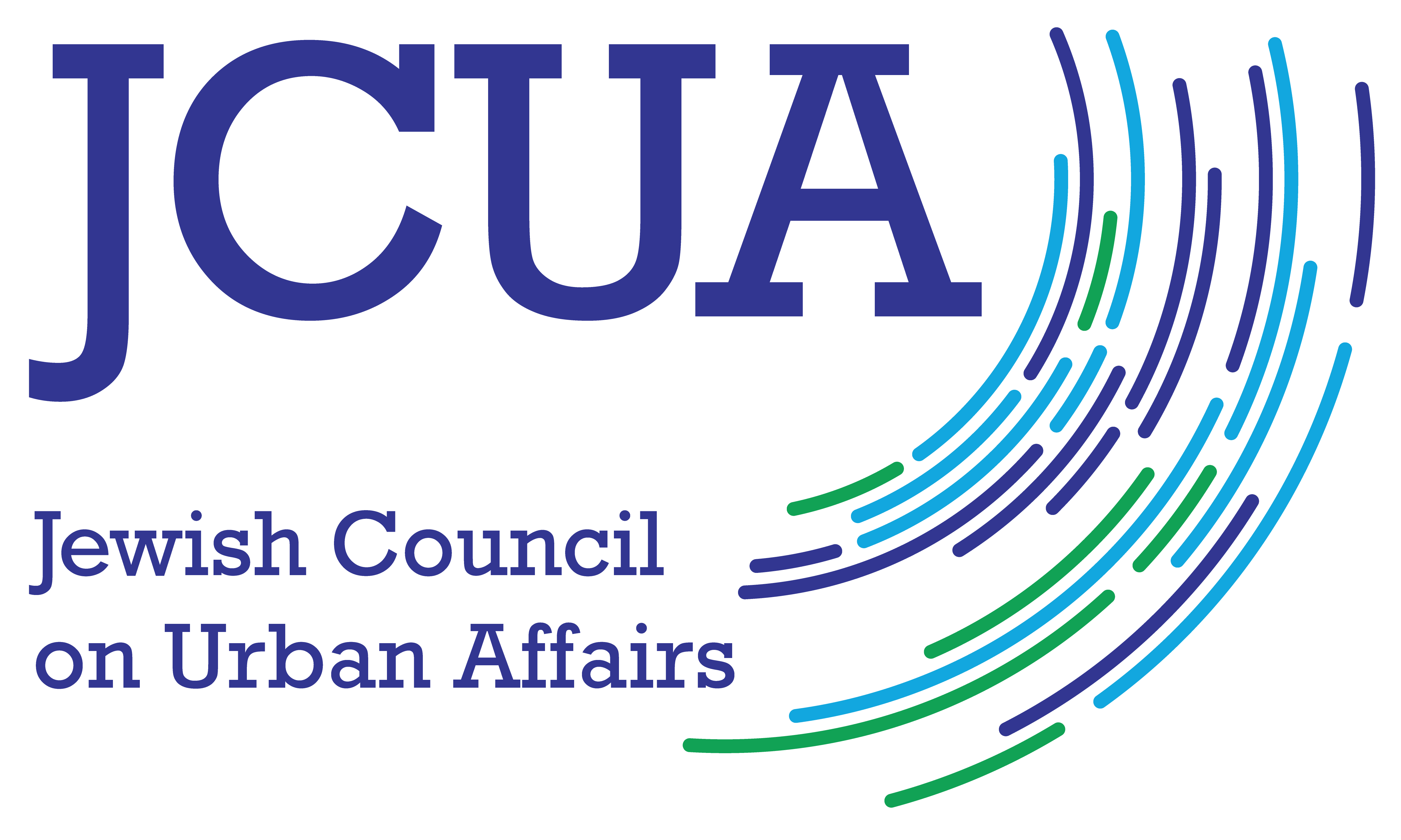 JCUA Logo 2018